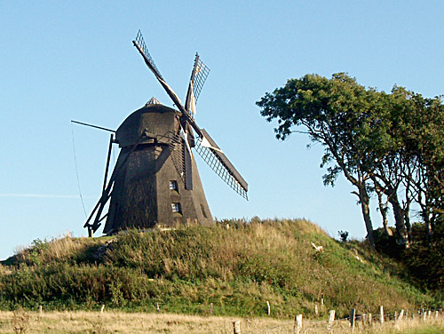 Havnø vindmølle near Hadsund, Visborg Sogn, Hindsted Herred (Ålborg Amt) Denmark.